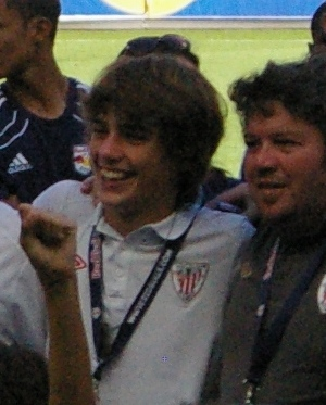 winner of 2012 Next Generation trophy